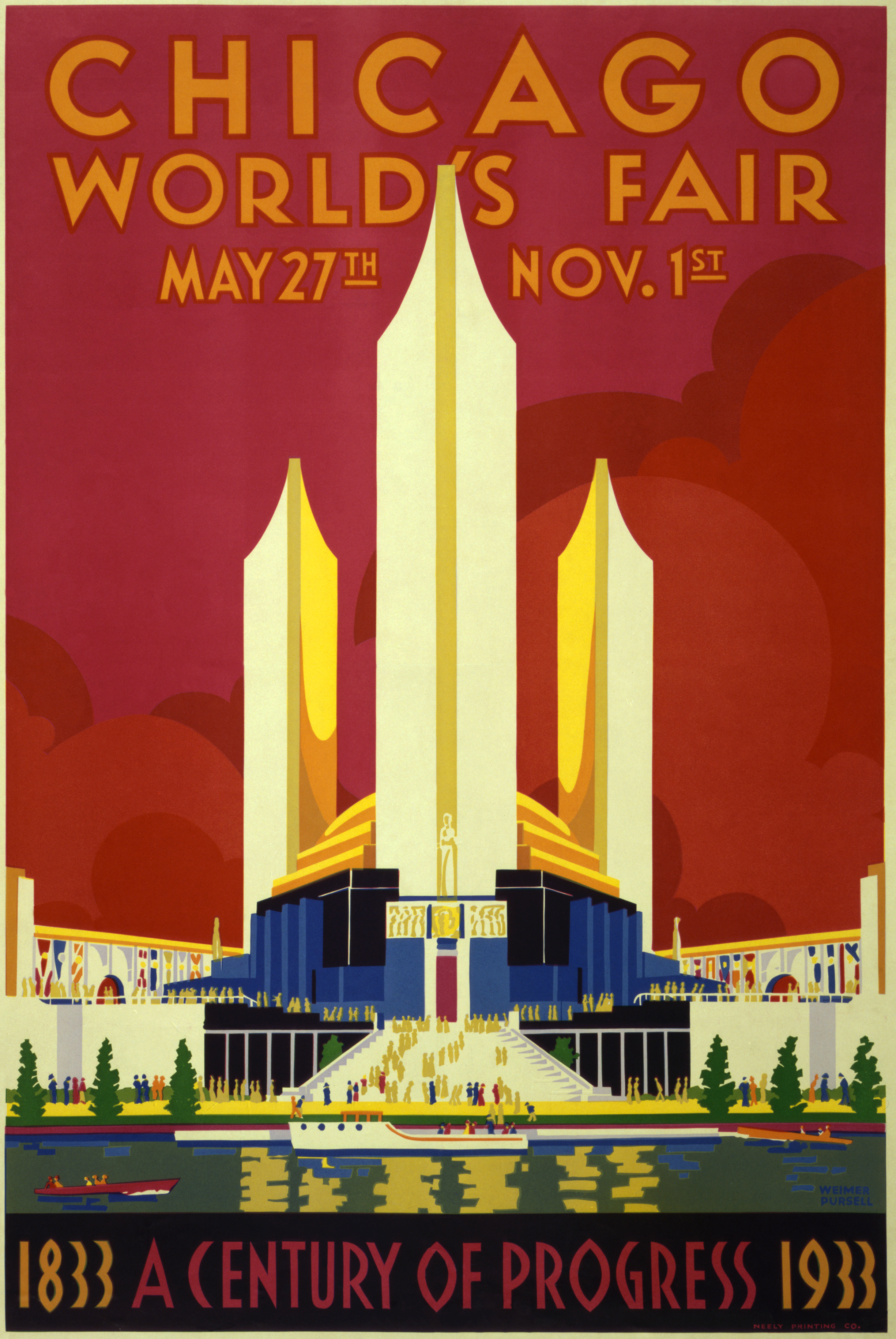 Poster for Century of Progress World's Fair showing exhibition buildings with boats on water in foreground.